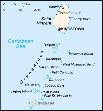 Map of Saint Vincent and the Grenadines from the 2004 World Factbook (2005-02-10 revision)